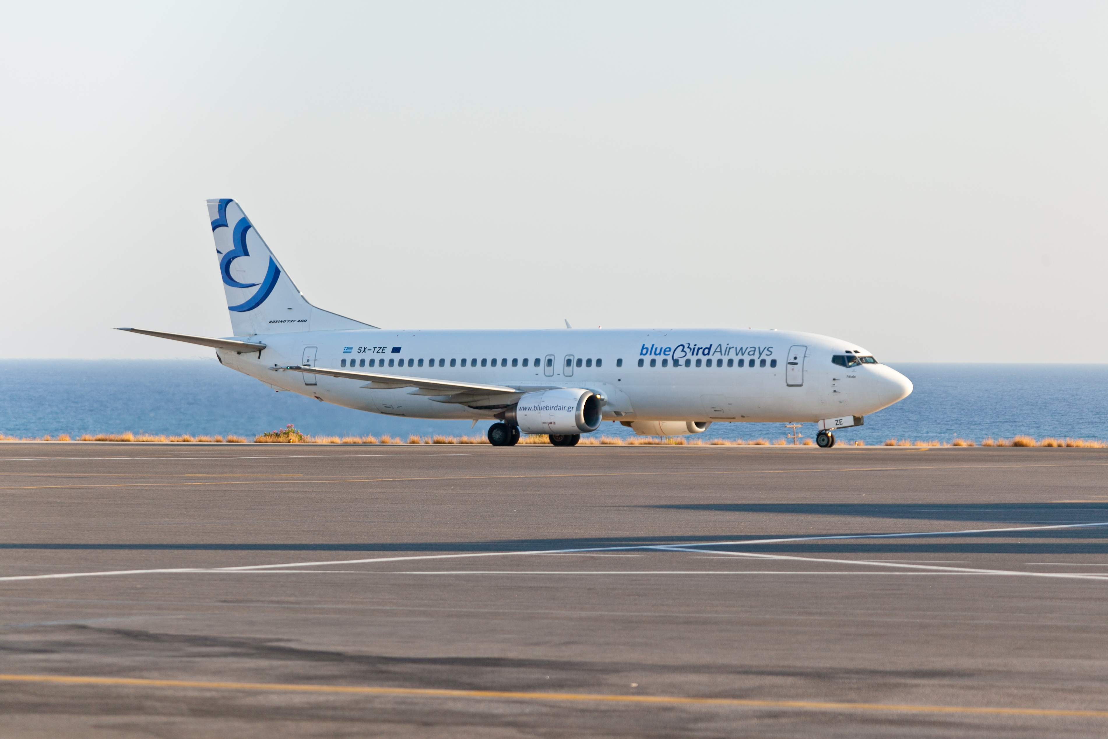 Bluebird Airways SX-TZE Boeing 737-400